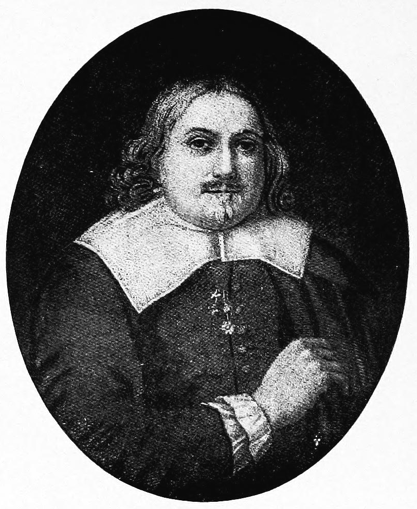 John Lowin. Illustrative of falling bands.